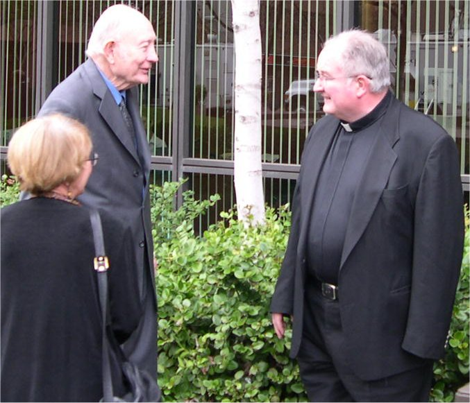 Clair Burgener, former U.S. Congressman from San Diego, California talking to Father Joe Carroll, of the Catholic homeless relief organization, Father Joe's Villages I Dan Anderson took this picture in front of the U.S. Courthouse in San Diego on March 3, 2006. This was after the sentencing of former Congressman Randy "Duke" Cunningham. Carroll and Burgener appeared in support of Cunningham. am told this person is allegedly Ted Baxter, not Clair Burgener. I have my doubts, but for the benefit of a doubt, I'm removing the image. Dananderson 00:20, 23 August 2007 (UTC)